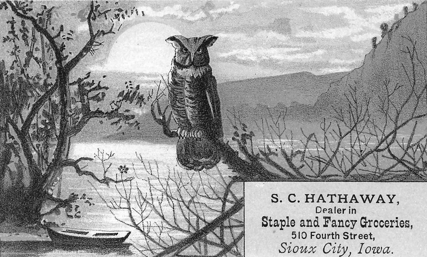 Trade cards Chromolithographs S.C. Hathaway: Owl with moon rising on lake Trade card, United States -- Iowa -- Sioux City